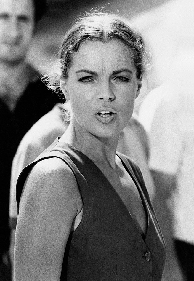 The Austrian-born French actress Romy Schneider (Rosemarie Magdalena Albach-Retty) acting in 'La Califfa'. Parma, 1970